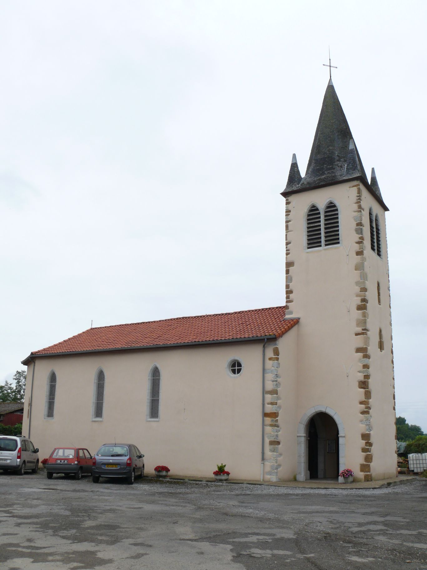 The church of Nabas (Pyrénées-Atlantiques, France).